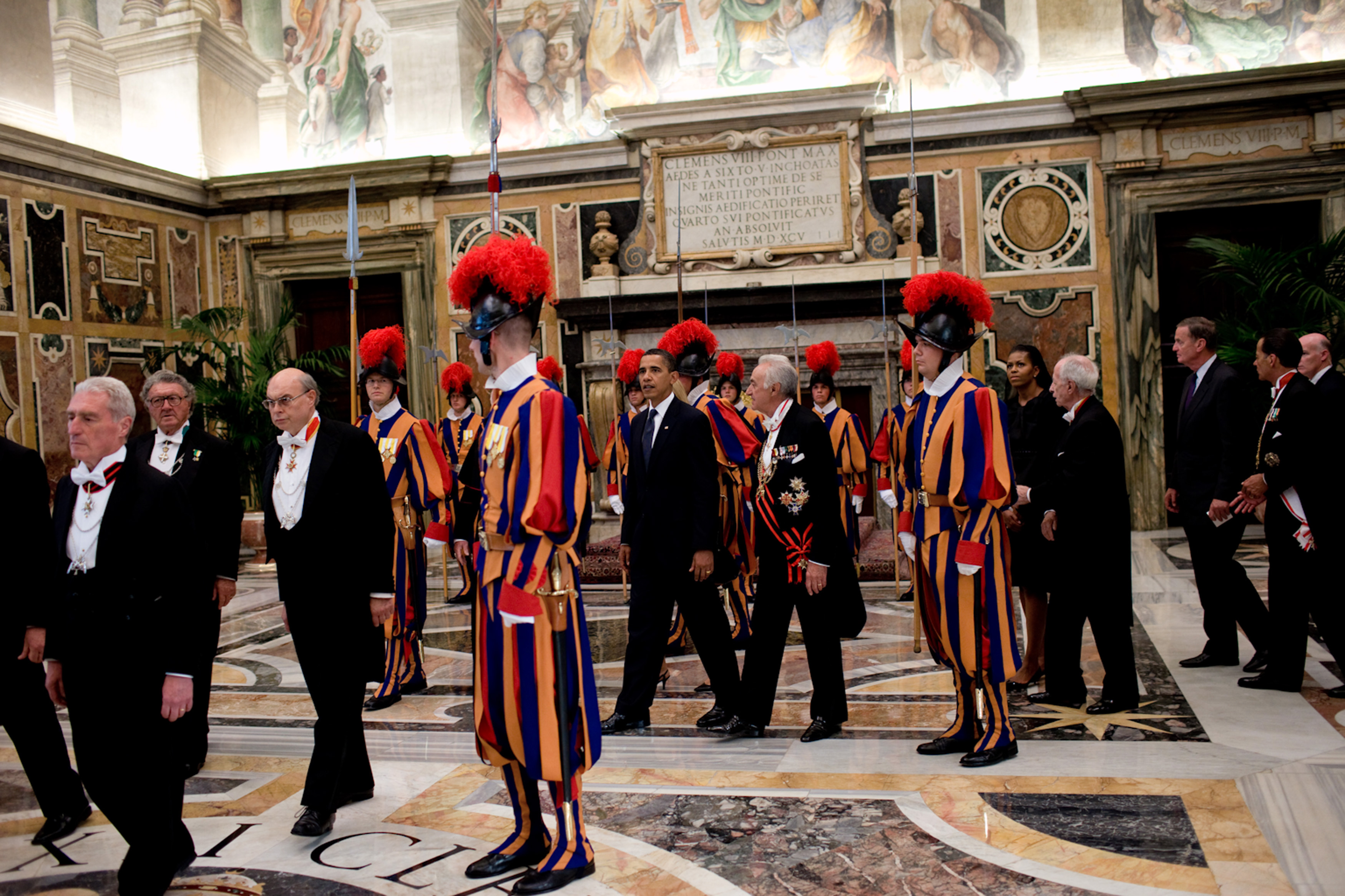 President Barack Obama and First Lady Michelle Obama are escorted to their motorcade after meeting with Pope Benedict XVI at the Vatican on July 10, 2009.